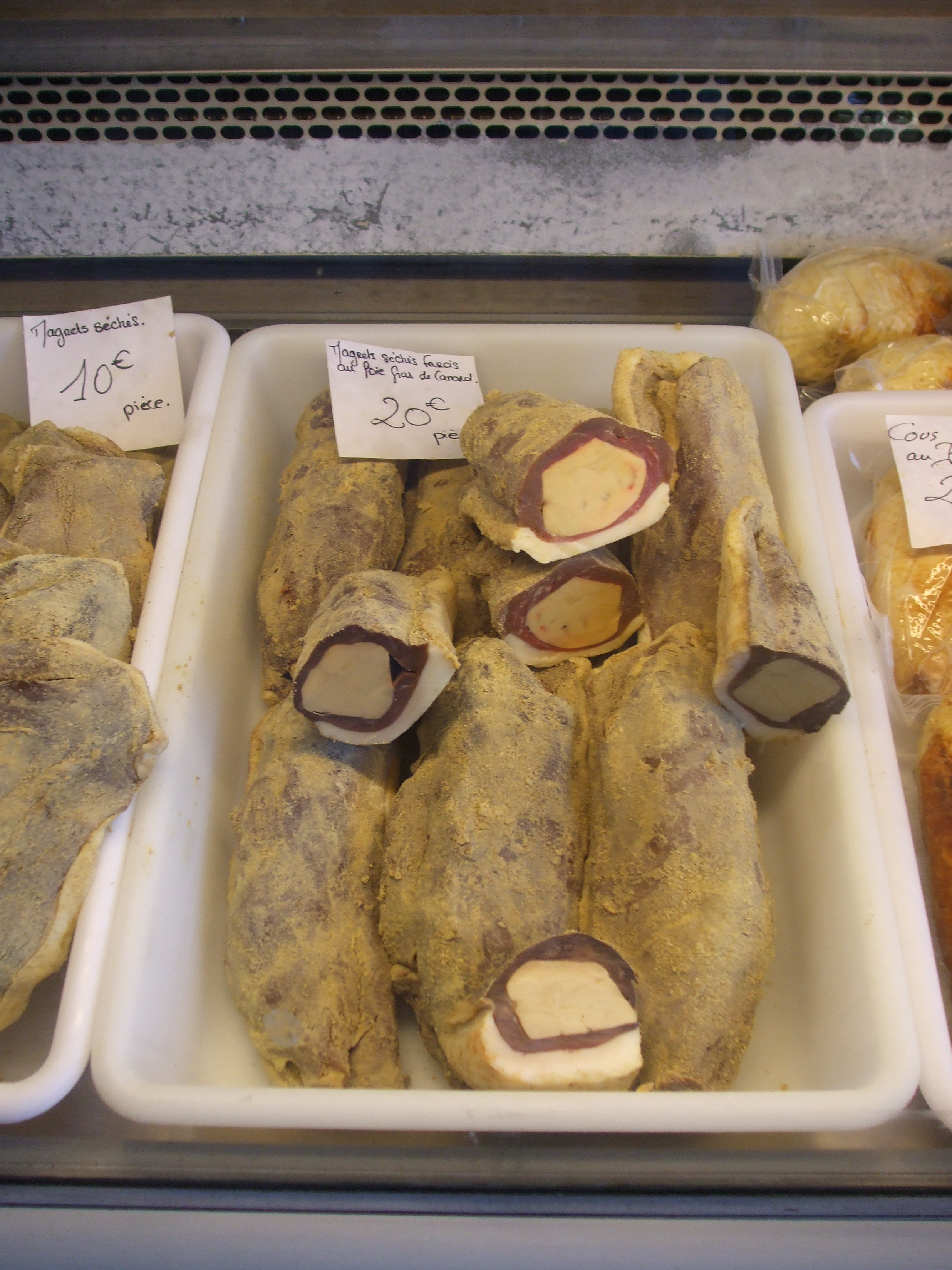 Dried duck breast stuffed with foie gras, marché de Brive-la-Gaillarde, France